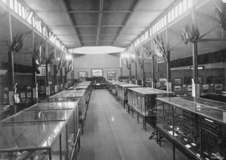 Australian War Memorial image J00290. The interior of the Australian War Museum in Melbourne on or about the day of its opening.